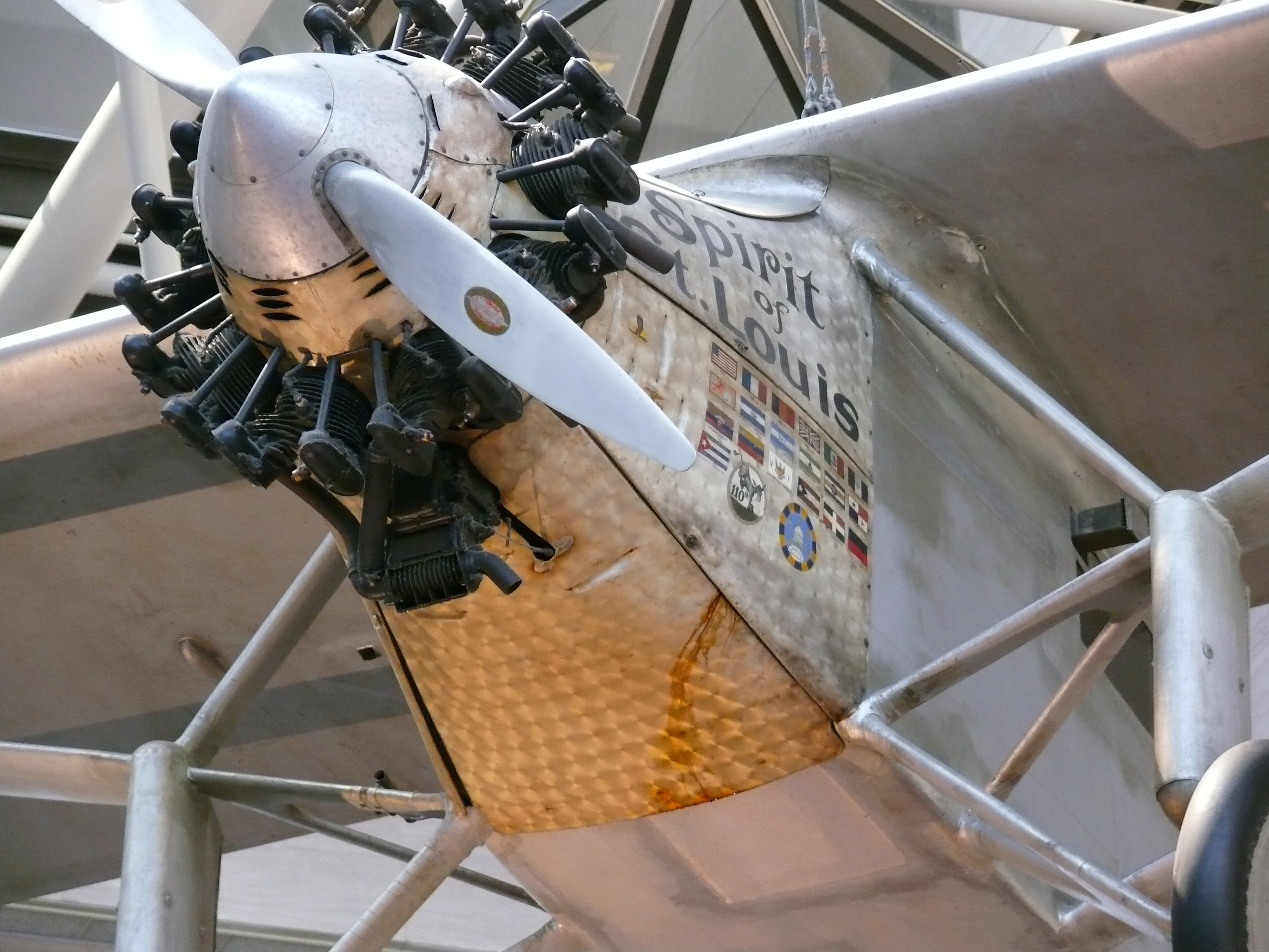 Spirit of St-Louis photographed at National Air and Space Museum. The Spirit of St. Louis (Registration: N-X-211) is the custom-built single engine, single seat monoplane that was flown solo by Charles Lindbergh on May 20-21, 1927, on the first non-stop flight from New York to Paris.